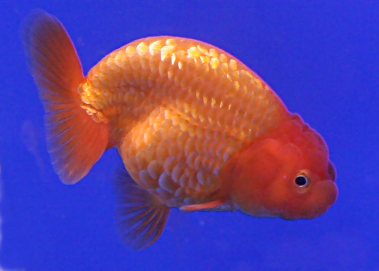 A Ranchu goldfish from The 6th "Pramong Nomjai Thaituala" Thailand Tropical Fish Competition 2007. (Won 1st prize)